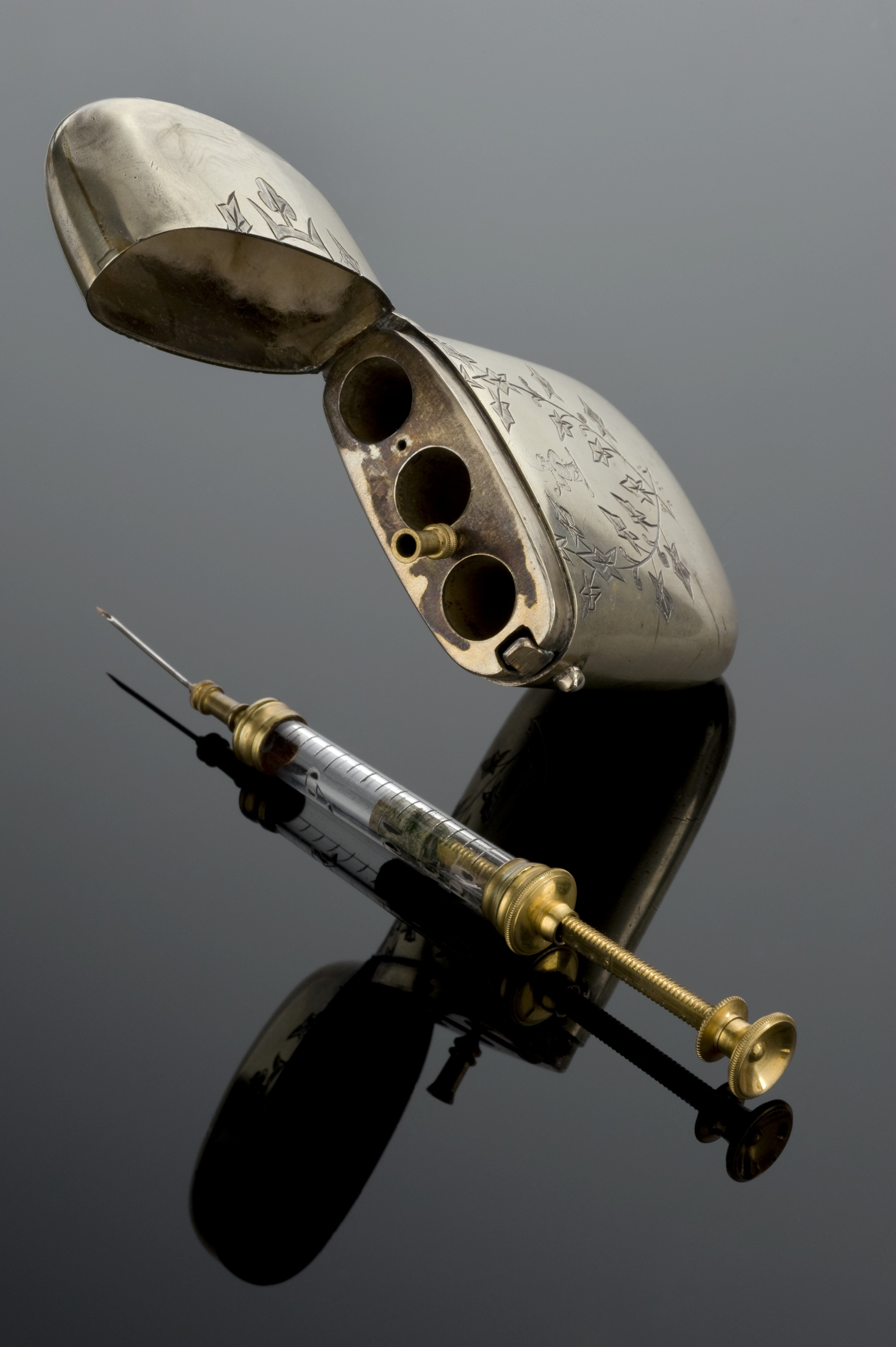 Hypodermic needles came into common use in the second half of the 1800s. This syringe and needle set was made just a handful of years after the hollow needle was invented by Scottish doctor Alexander Wood in 1853 – although French surgeon Charles Pravaz was independently developing a similar device at the same time. Hypodermic needles allow drugs to be injected under the skin. In this example, parts of the syringe are also made of metal. The now familiar plastic syringes did not appear appeared until a century later. Today, both needles and syringe tend to be disposed of after a single use. This example was made by London-based surgical instrument makers Coxeter & Son. maker: Unknown maker Place made: Europe Wellcome Images Keywords: hypodermic syringe